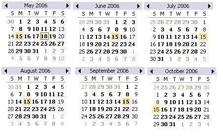 May - Dec 2006 Calendar